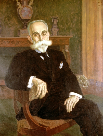 Bernardino Machado